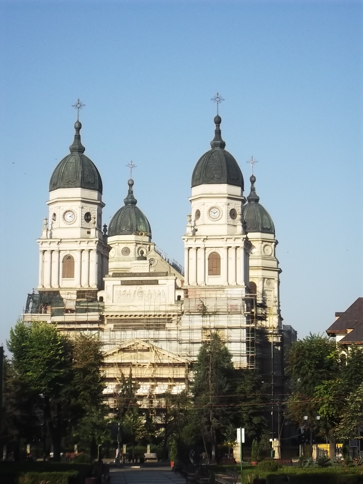 The Metropolitan Cathedral in Iaşi